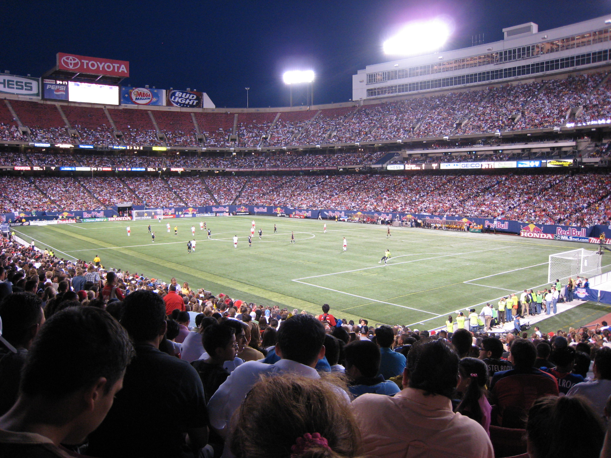 New York Red Bulls playing against Los Angeles Galaxy in the Giants Stadium.